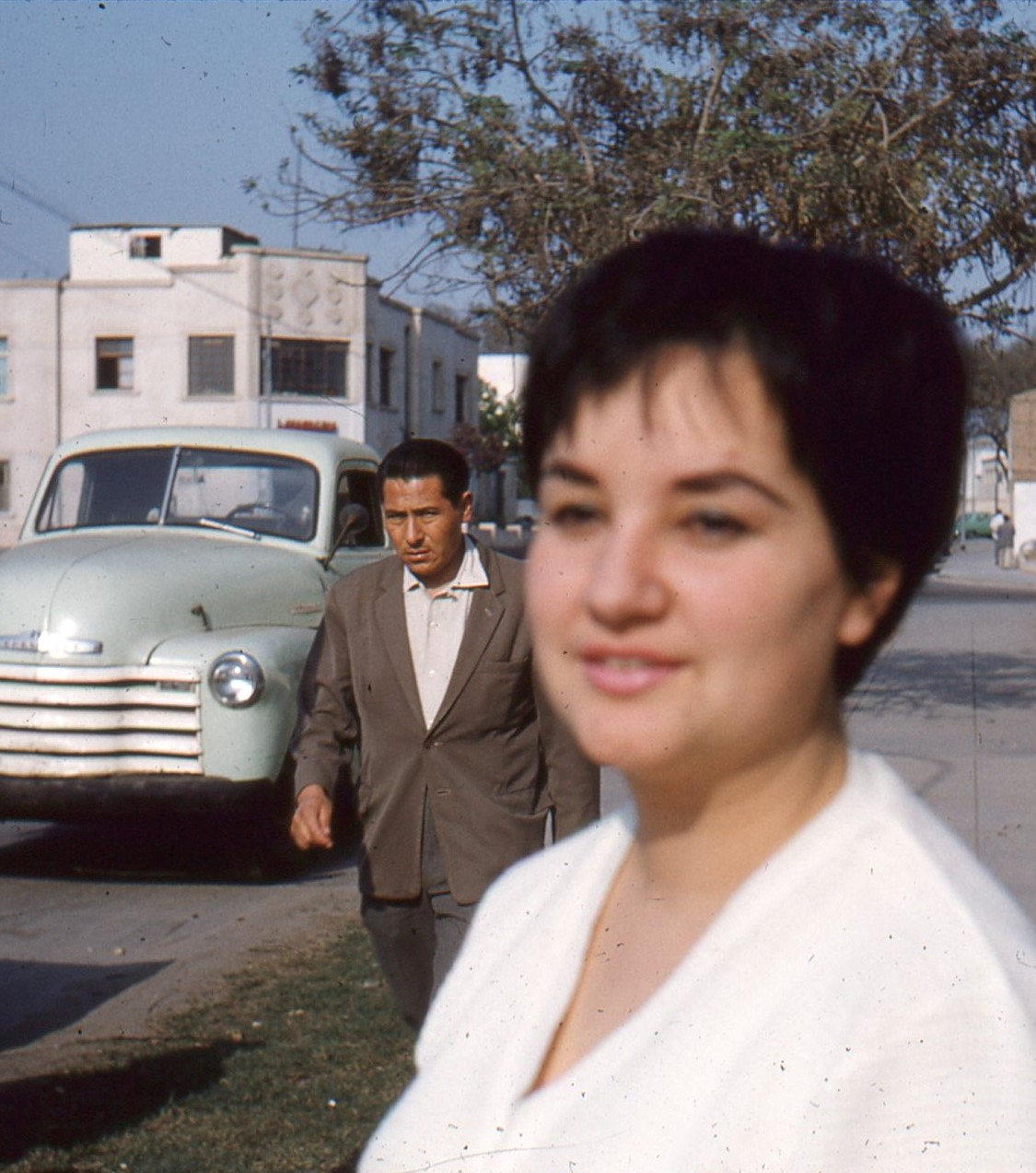 portrait of Ella Krebs 1956